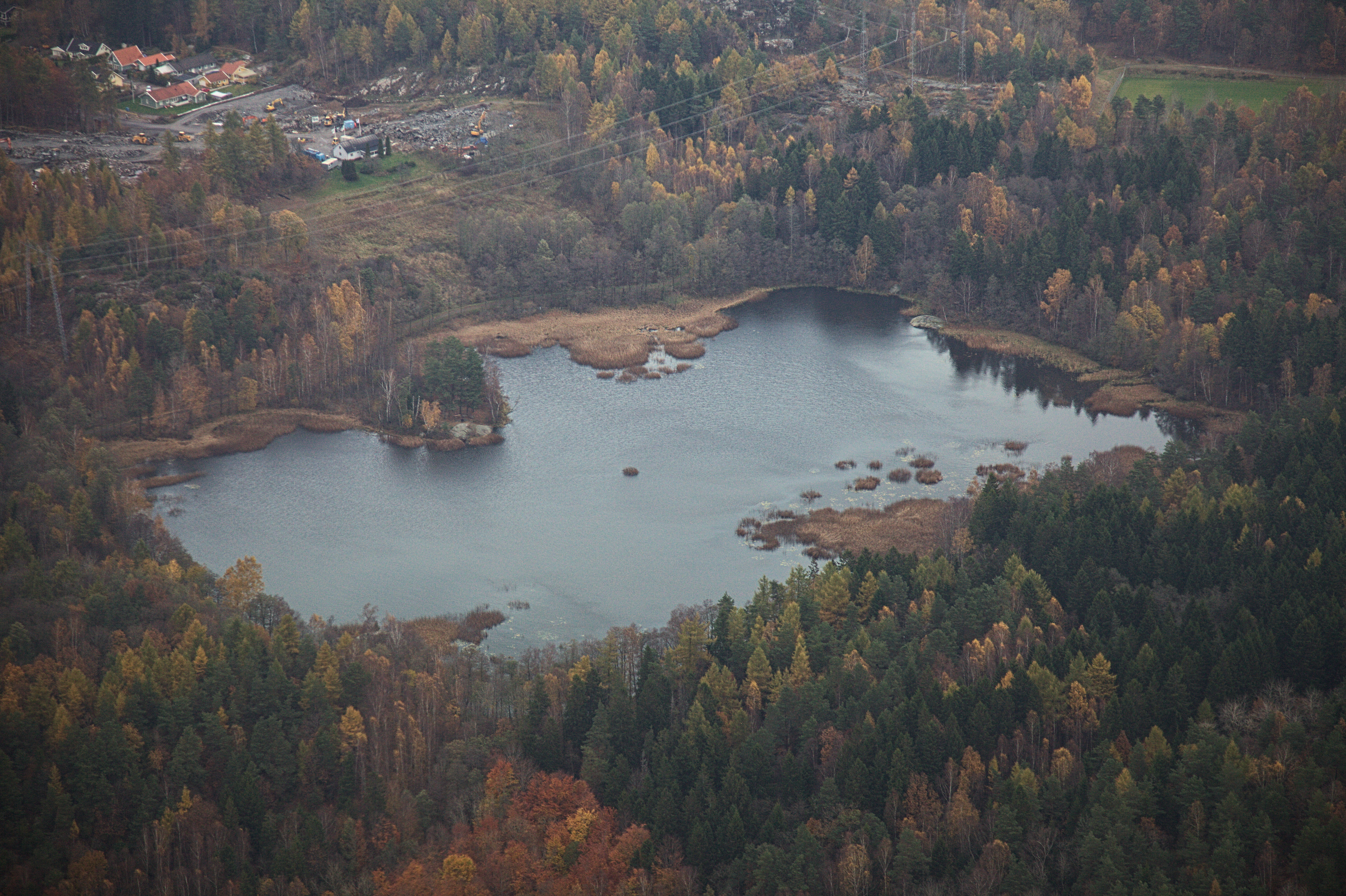 Photo taken on a helicopter over Gothenburg. Keillers damm from southwest.